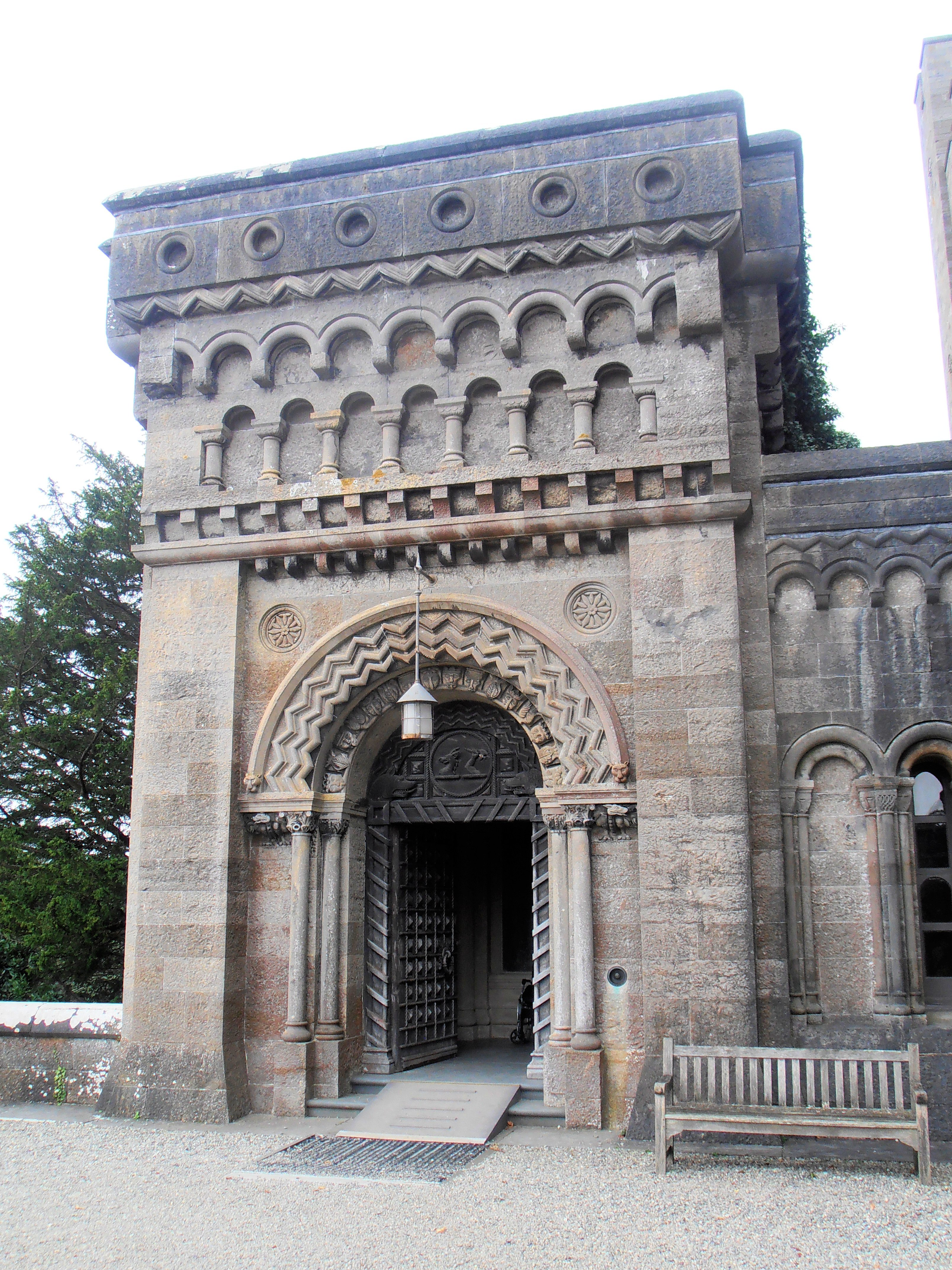 Castell y Penrhyn; Penrhyn Castle, Gwynedd.